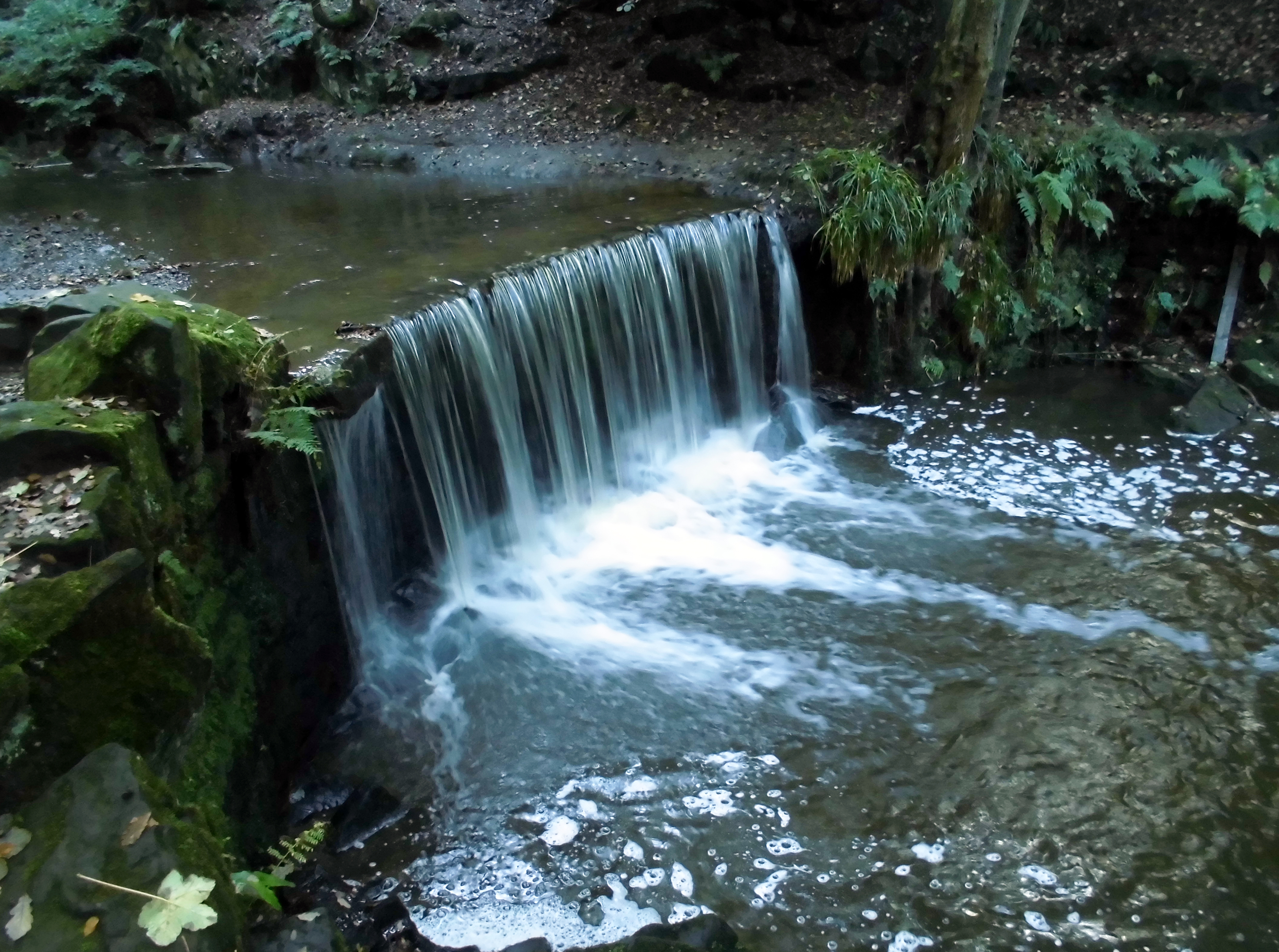 A man made waterfall at the start of the River Trent just before it enters Knypersley Reservoir